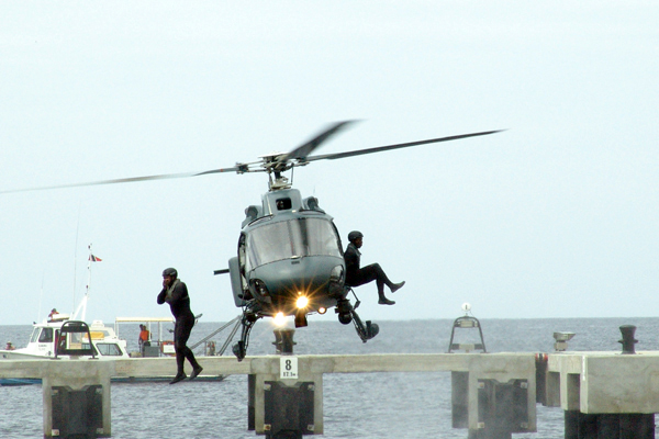 Two coast guards jump out of a helicopter into the sea.